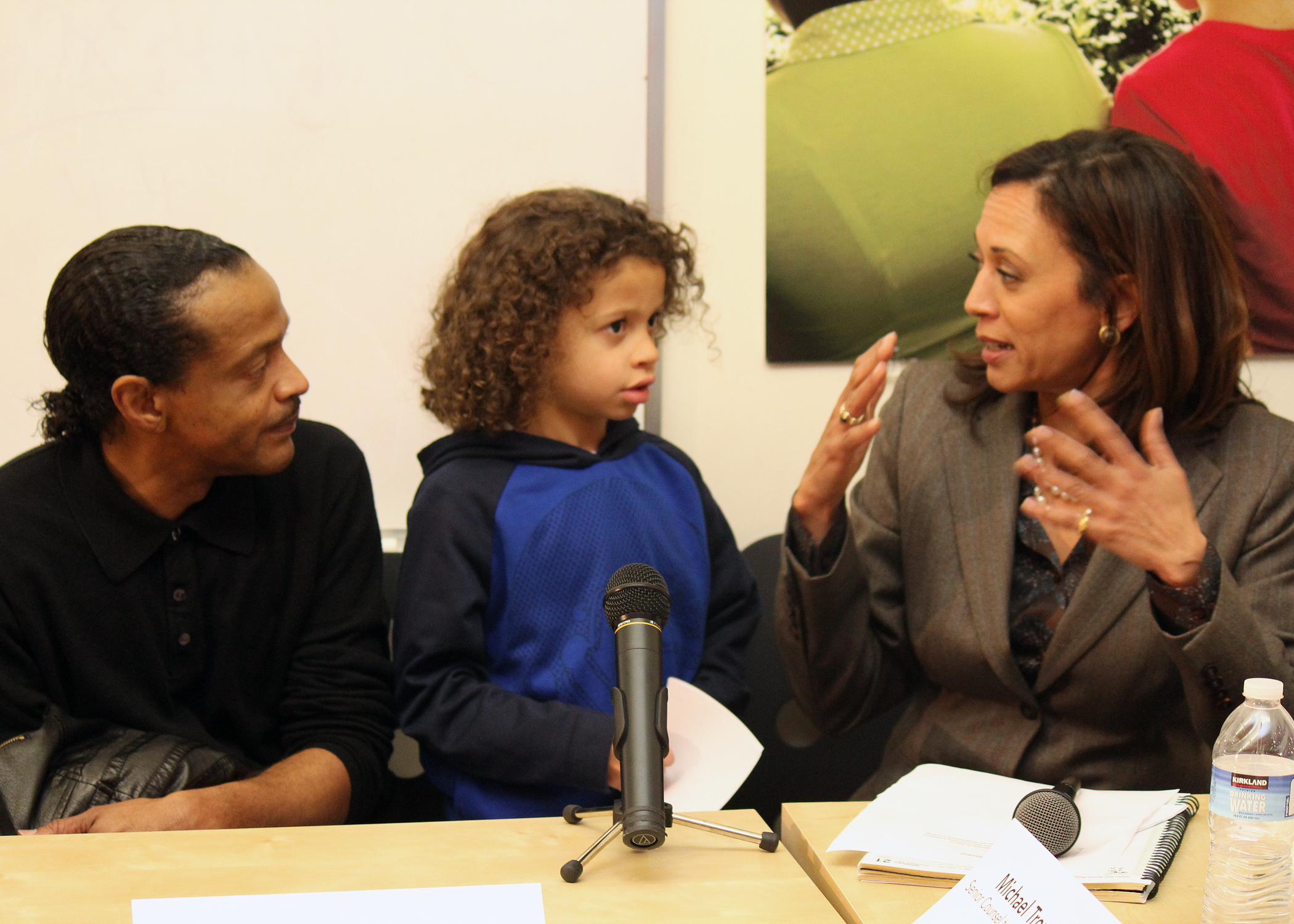 Attorney General Kamala D. Harris meets with San Francisco homeowners facing foreclosure at the Mission Economic Development Agency.